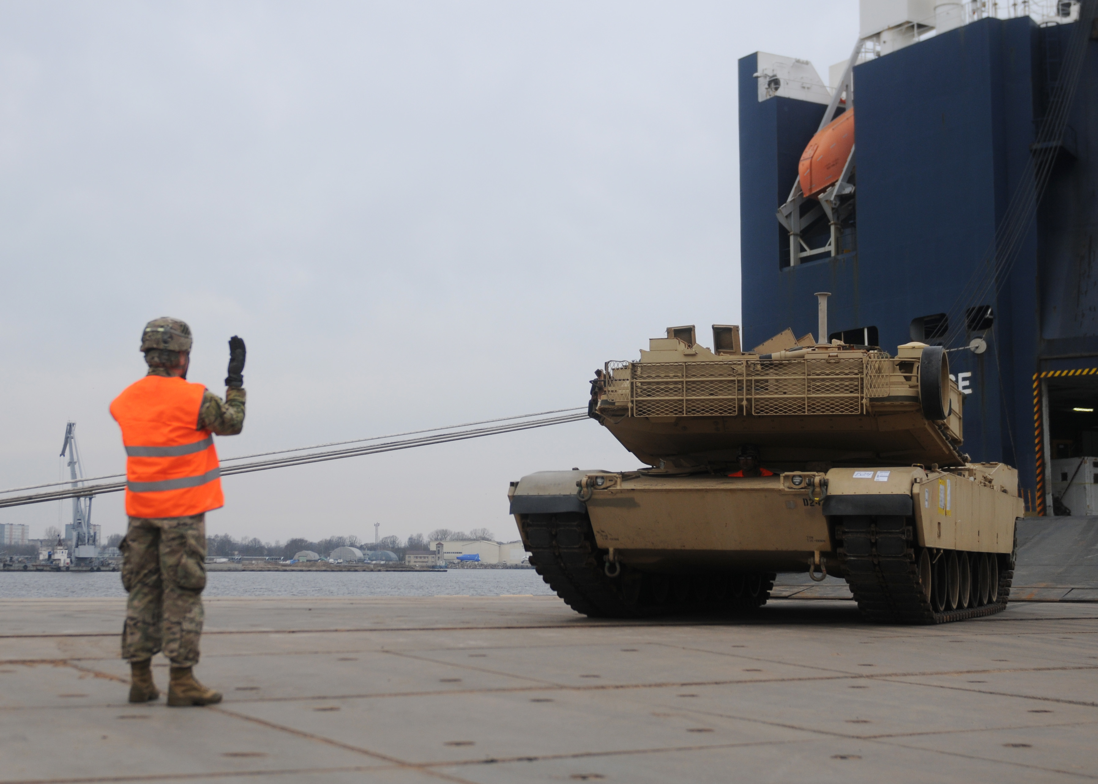 Soldiers from the 3rd Infantry Division offload an M1A2 Abrams Main Battle Tank from the transportation vessel “Liberty Promise” March 9 at the Riga Universal Terminal docks. More than 100 pieces of equipment, including the tanks, M2A3 Bradley Fighting Vehicles and assorted military cargo, will move on to sites in other areas of Latvia as well as Estonia and Lithuania in support of Operation Atlantic Resolve, an ongoing mission designed to exemplify U.S. and NATO commitment to the region, build allied capability and interoperability, and bolster regional security and stability. Soldiers of the 1st Armor Brigade Combat Team, 3rd ID, will employ the armored vehicles during an upcoming training rotation. (Photo by Staff Sgt. Warren W. Wright Jr., 21st TSC Public Affairs)